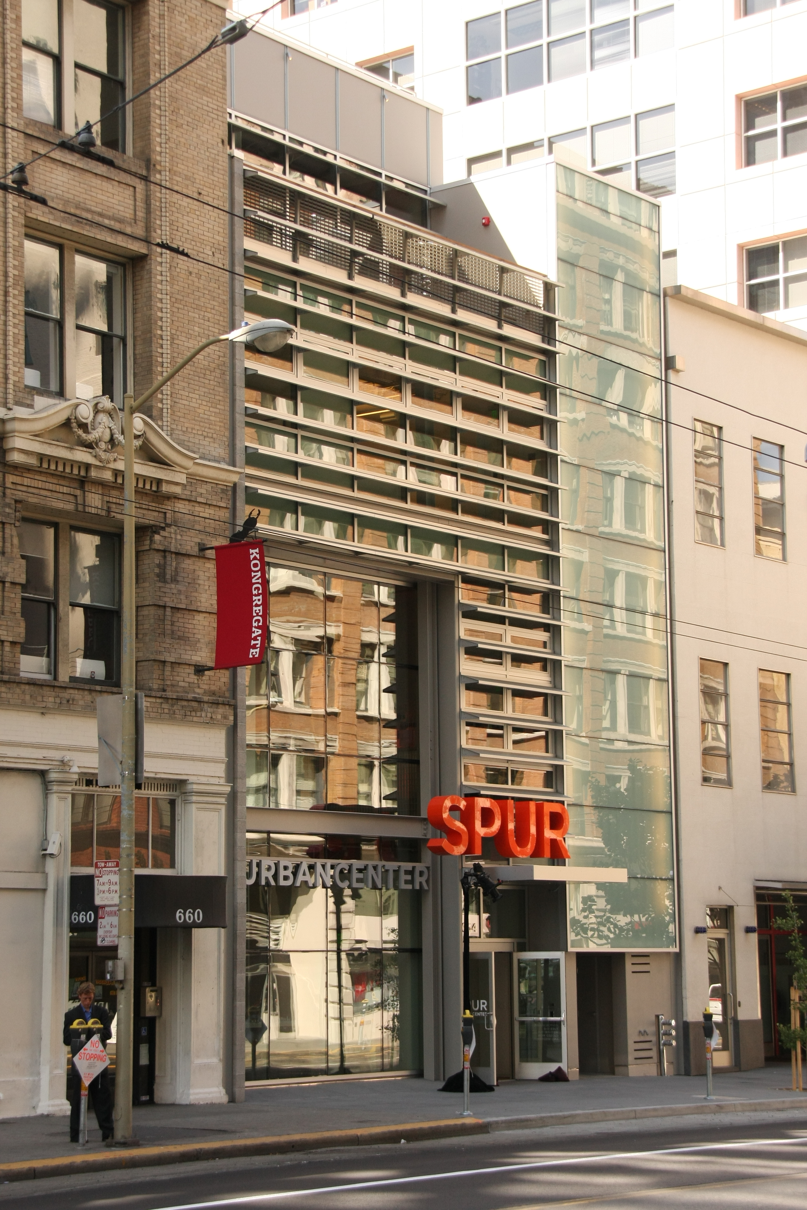 A photo of the San Francisco Planning and Urban Research Association (SPUR) Urban Center in downtown San Francisco.